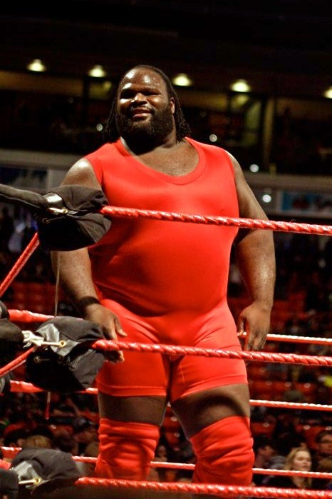 Affable Mark Henry smiles at a group of fans cheering for Kool-Aid during a WWE House Show in Halifax, Nova Scotia, Canada.